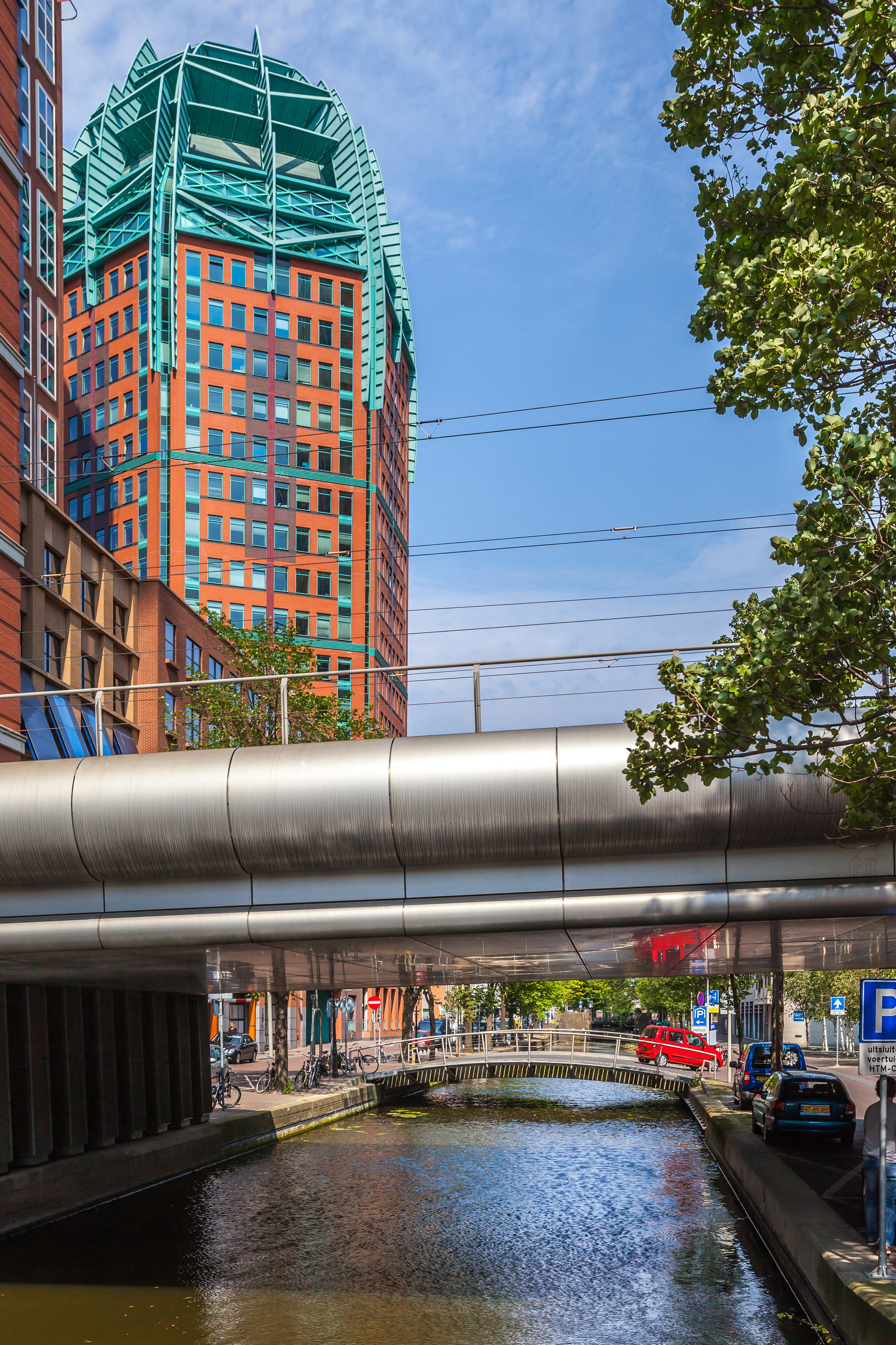 "Zurichtoren" building seen from Turfmarkt street, The Hague (07/2011) - Human picture: (1 body / 1 lens / 1 human = 1 picture ) 0% AI ... ;- ) ... Following vandalization (Rotterdam) of my work, final stop of this series on European cities. My work not being respected, I definitively stop my publications in Wikimedia Commons (including definition and quality updates). Final publication in Wikimedia Commons